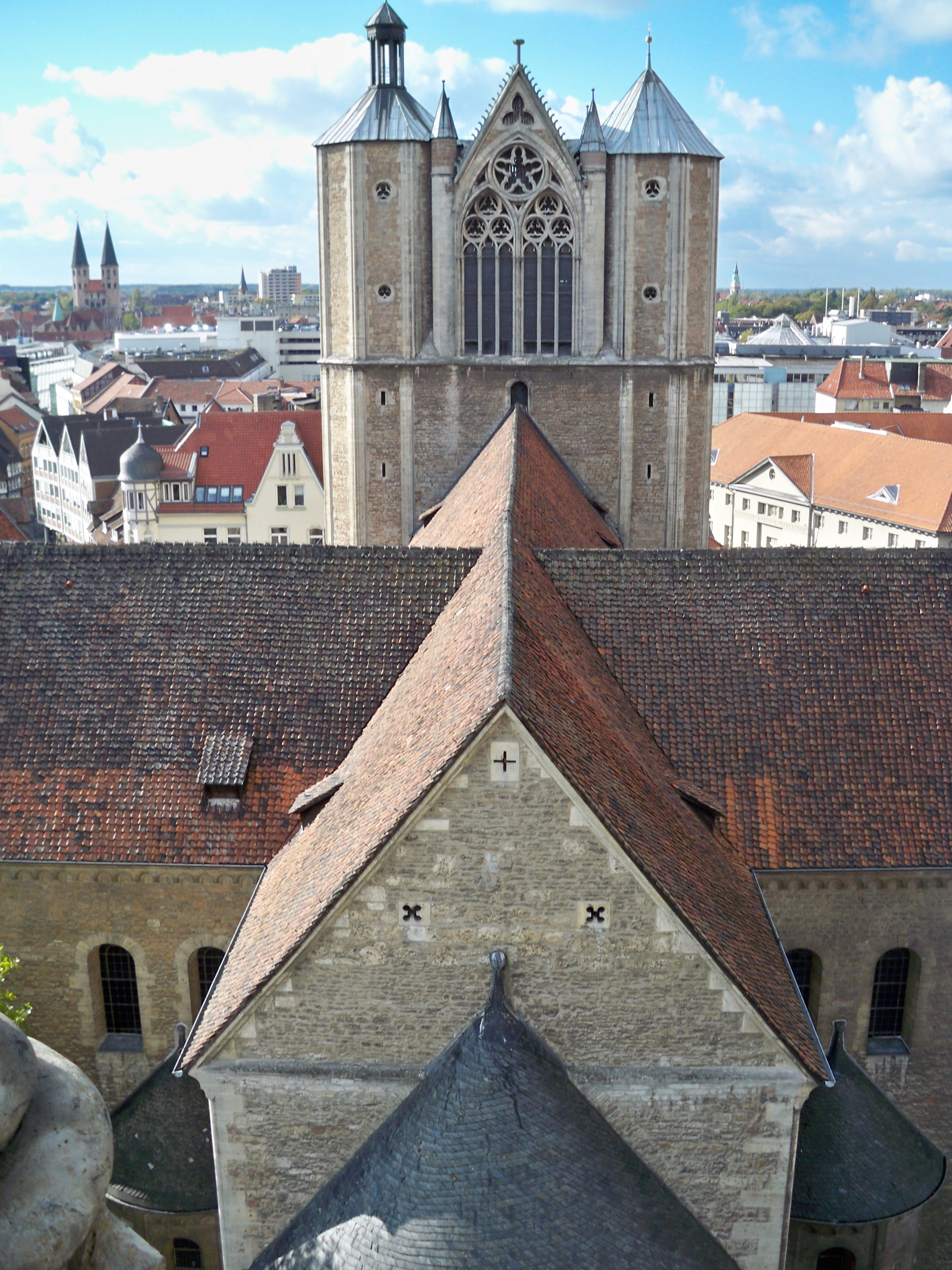 Brunswick, Lower Saxony, roof of the cathedral, taken from the tower of the Neue Rathaus